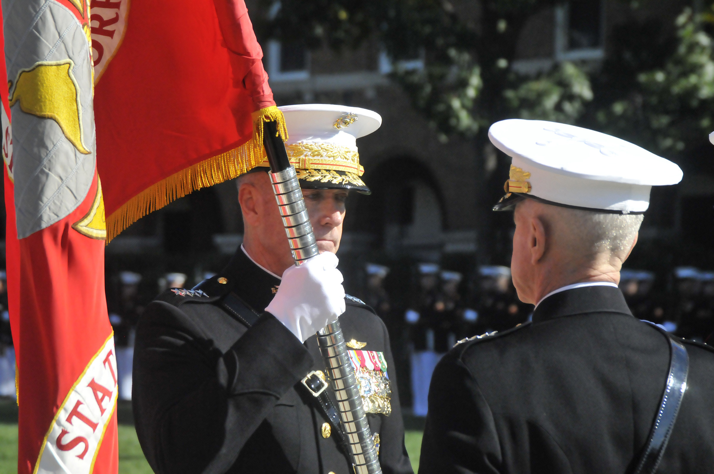 Gen. Joseph F. Dunford Jr., incoming commandant of the U.S. Marine Corps, receives the Marine Corps battle color from outgoing Commandant Gen. James F. Amos during a passage of command ceremony at Marine Barracks Washington, Oct. 17, 2014. Dunford became the Corps’ 36th commandant. (Joint Base Myer-Henderson Hall PAO photo by Jim Dresbach)